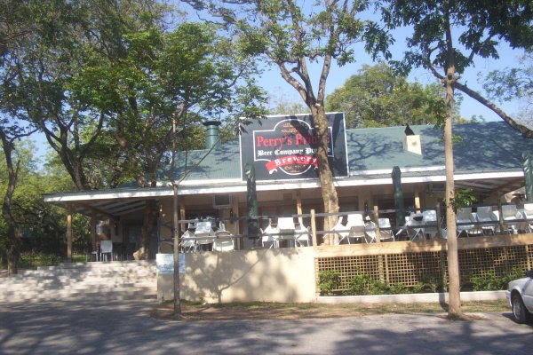 Brewery at Perry Bridge, Hazyview, South Africa.